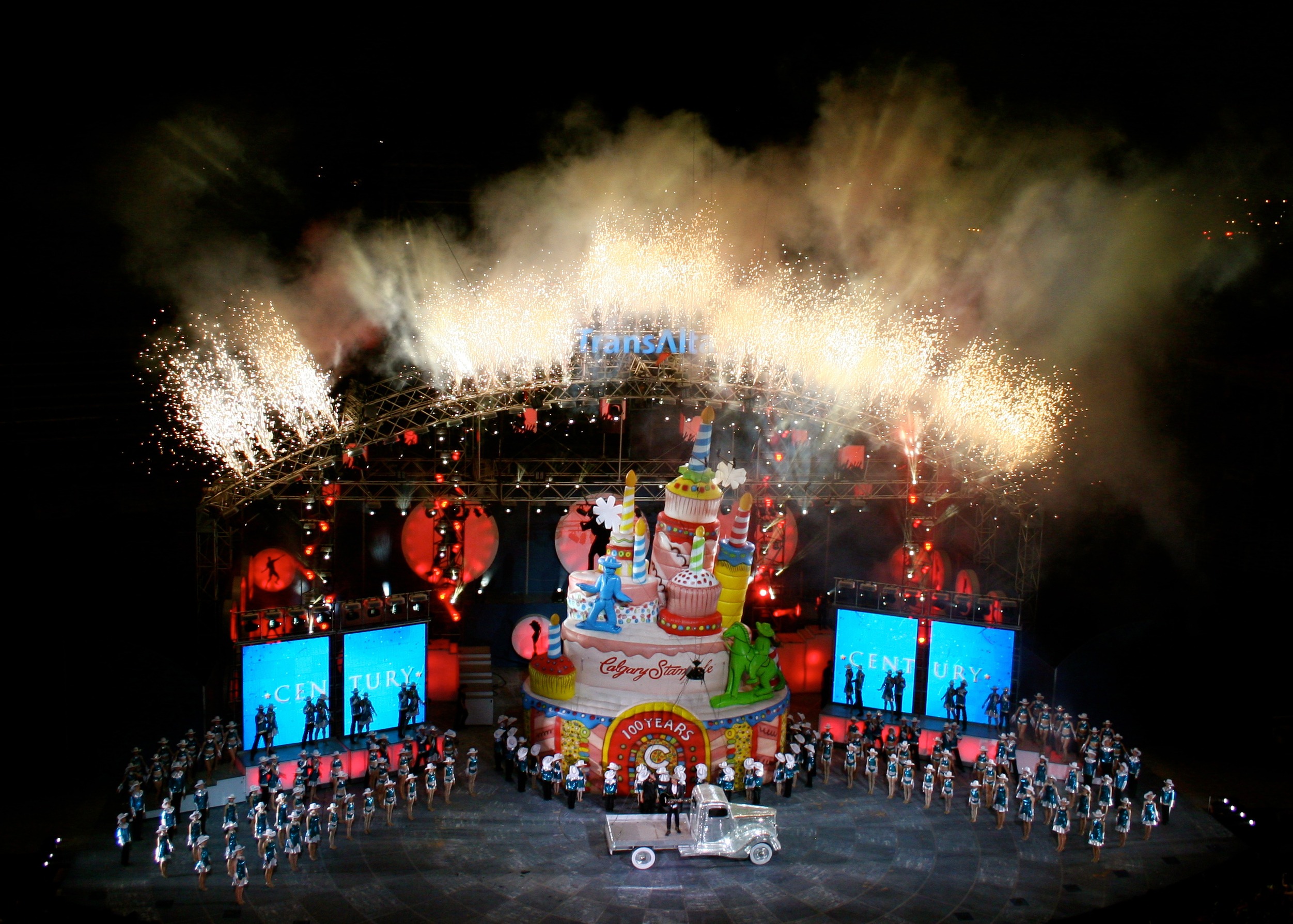 Calgary Stampede 100 years celebration.